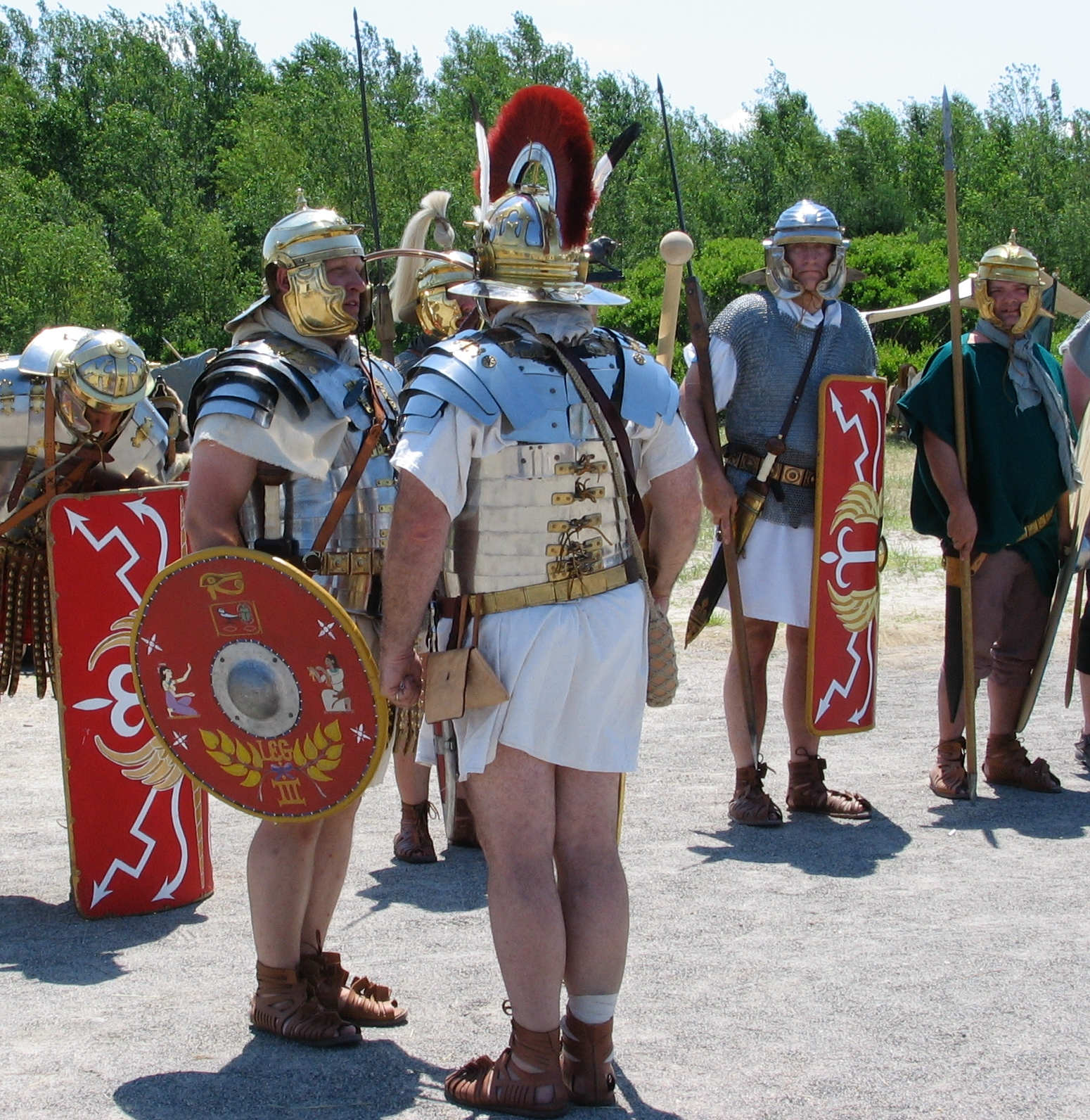 Roman re-enactors portraying Legion III Cyrenaica. Note the Menapian auxiliary standing on the right side of the photograph.